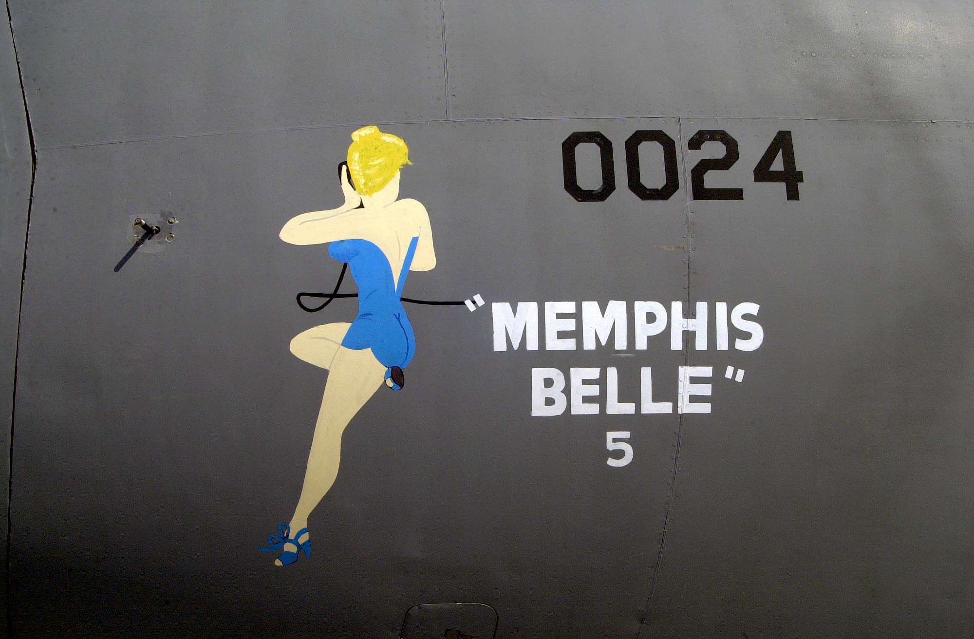 "Memphis Belle" nose art on a C-141 Starlifter from the 164th Airlift Wing, 155th Airlift Squadron, Tennessee Air National Guard, taken while at Naval Air Station, Sigonella, Italy. This nose art honors the B-17F "Memphis Belle" of World War II, which was the subject of two films. This Lockheed C-141 Starlifter (AF Serial Number 67-0024) is known as Memphis Belle V.